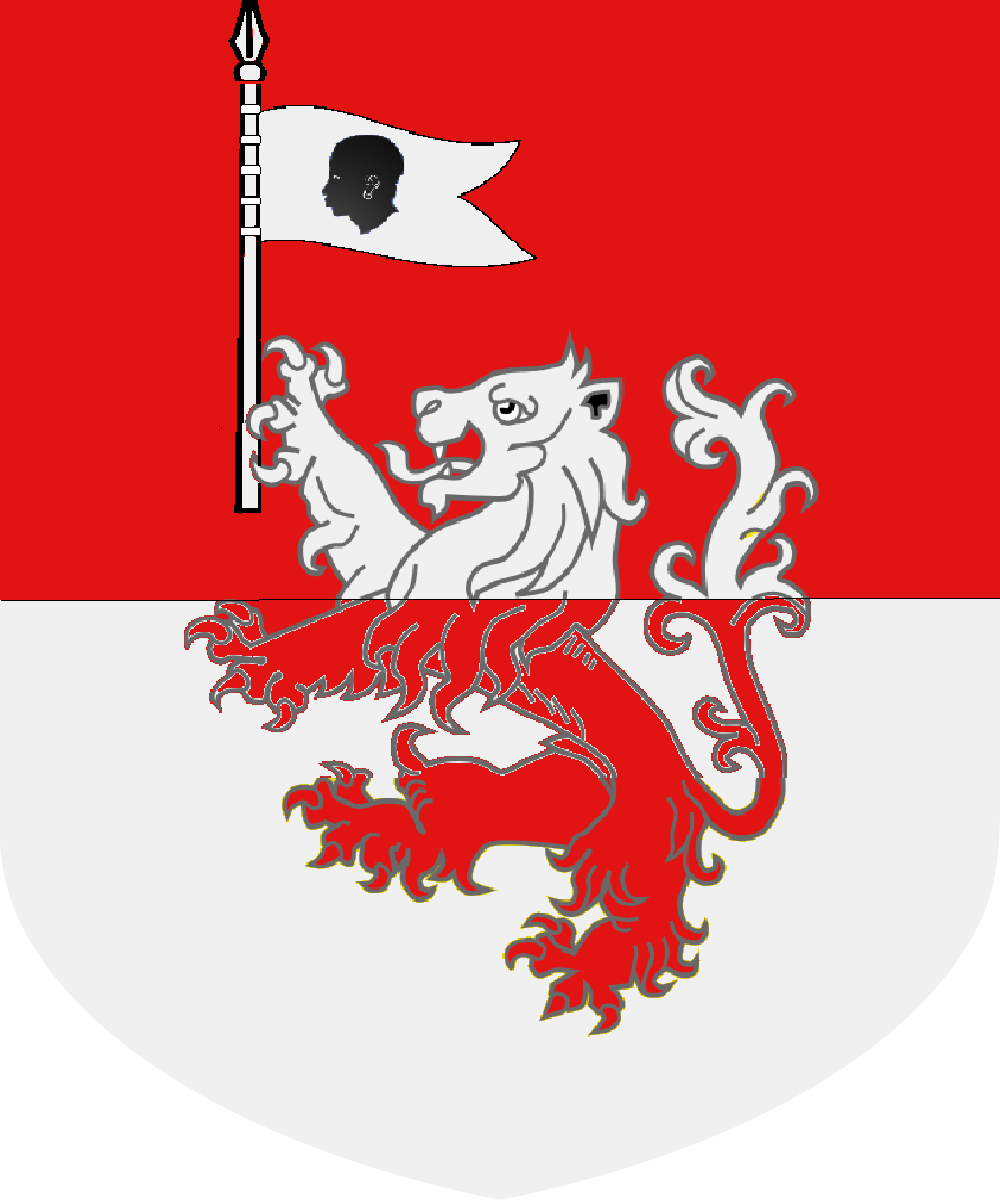 Anselmi shield